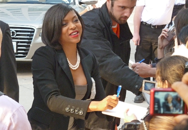 Taraji Henson at the premiere of Peep World, Toronto Film Festival 2010